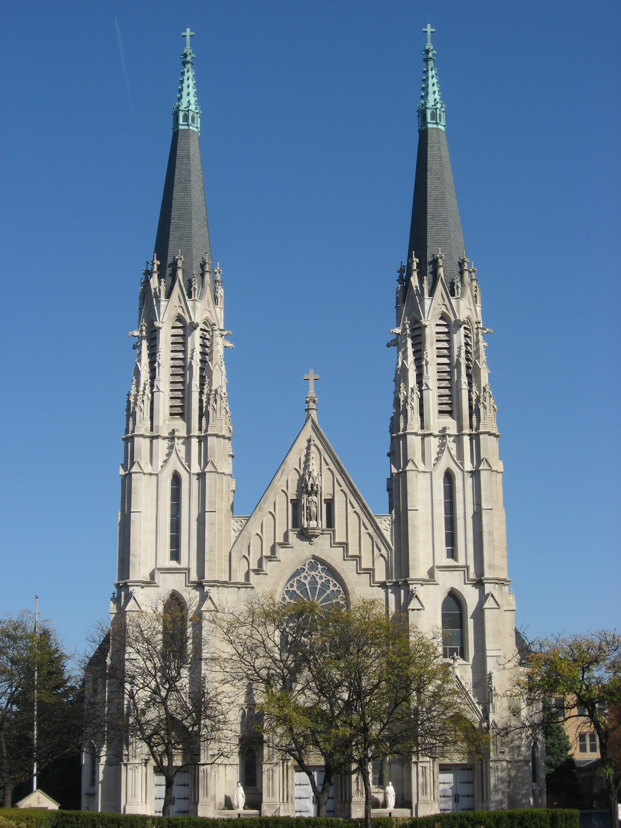 Front of St. Mary's Catholic Church, located at 317 N. New Jersey Street in Indianapolis, Indiana, United States. Built in 1910, it is listed on the National Register of Historic Places, and it is part of a Register-listed historic district, the Lockerbie Square Historic District.